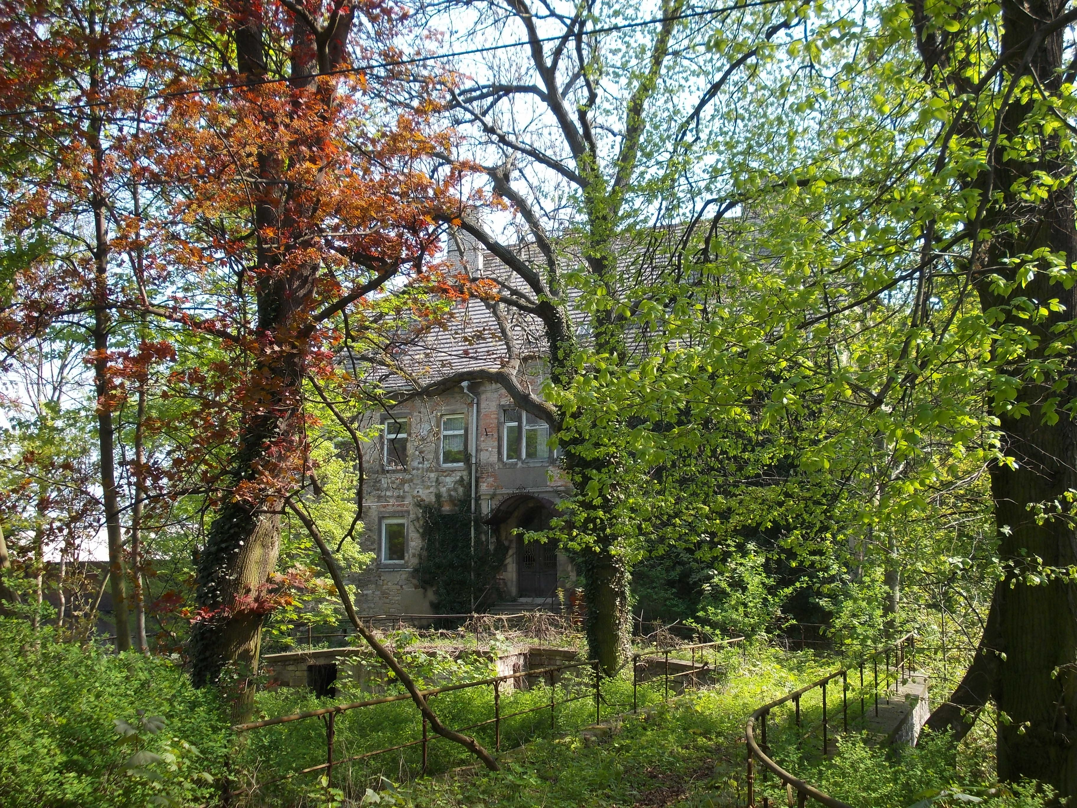 Manor house of Zörbitz estate (Lützen, district: Burgenlandkreis, Saxony-Anhalt)